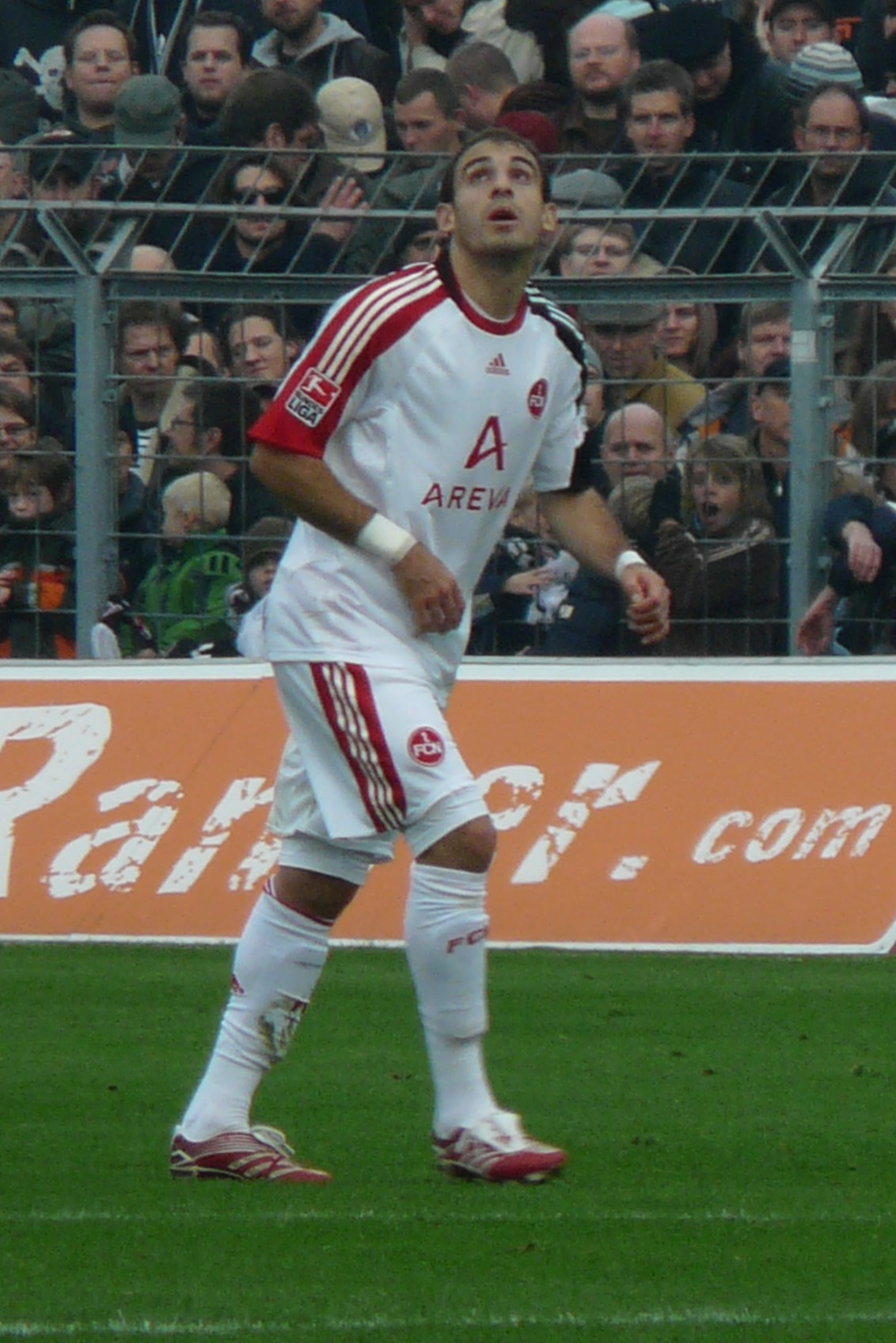 Javier Pinola as Player from 1.FC Nürnberg